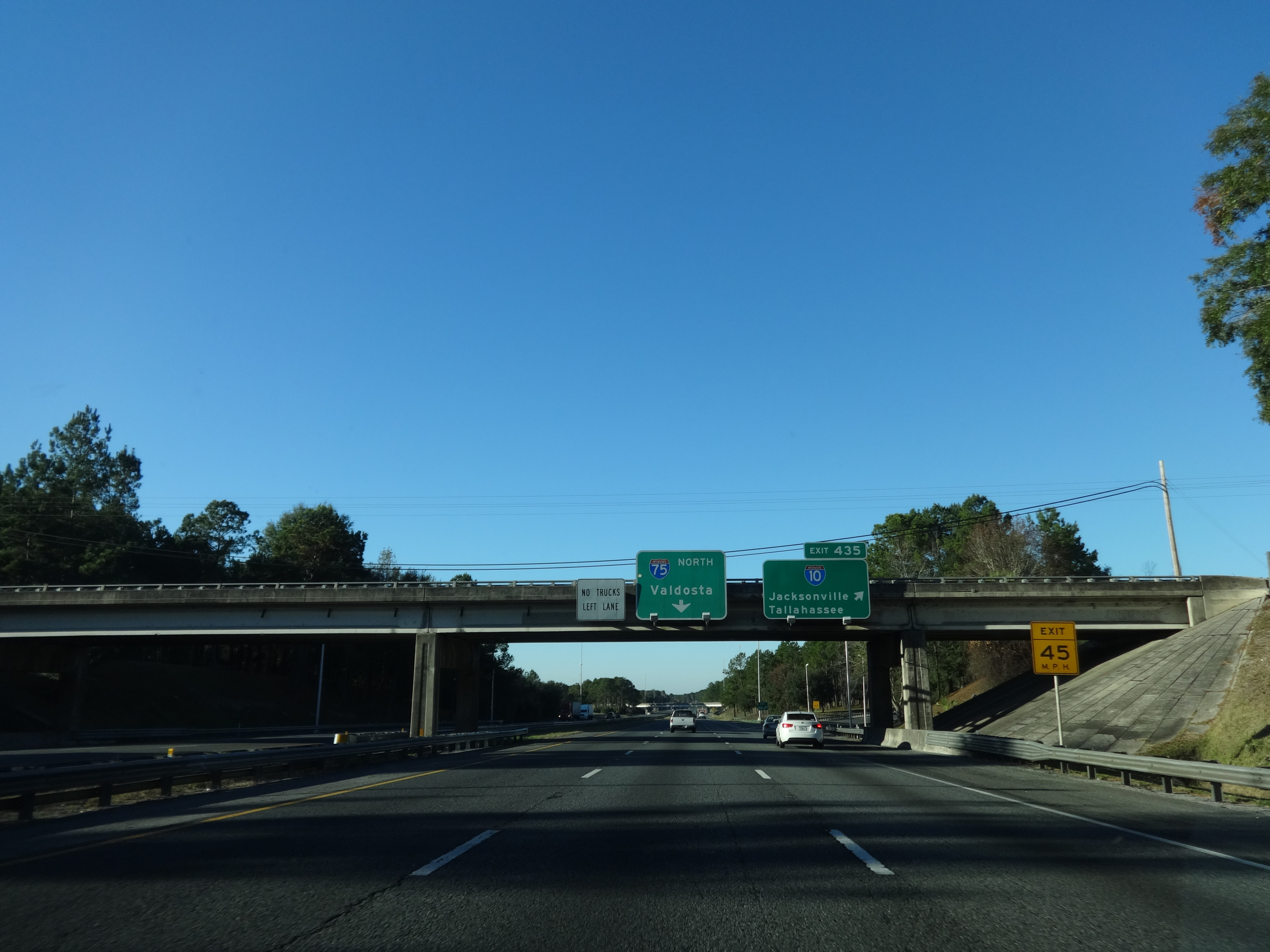 Florida I75nb Exit 435, Interstate 75, Columbia County, Florida